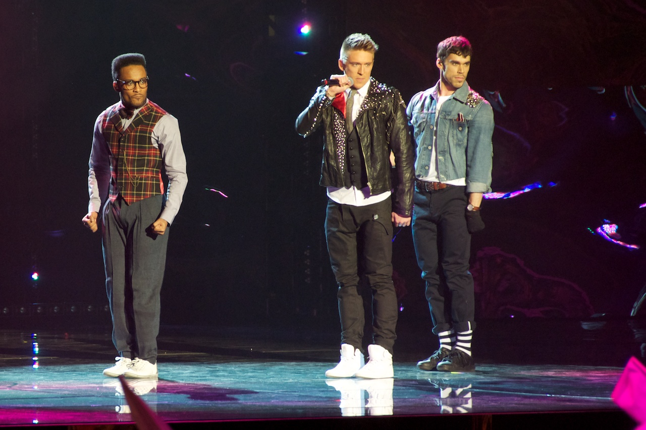 Danny Saucedo at dress rehersal in Luleå 4 February 2011.